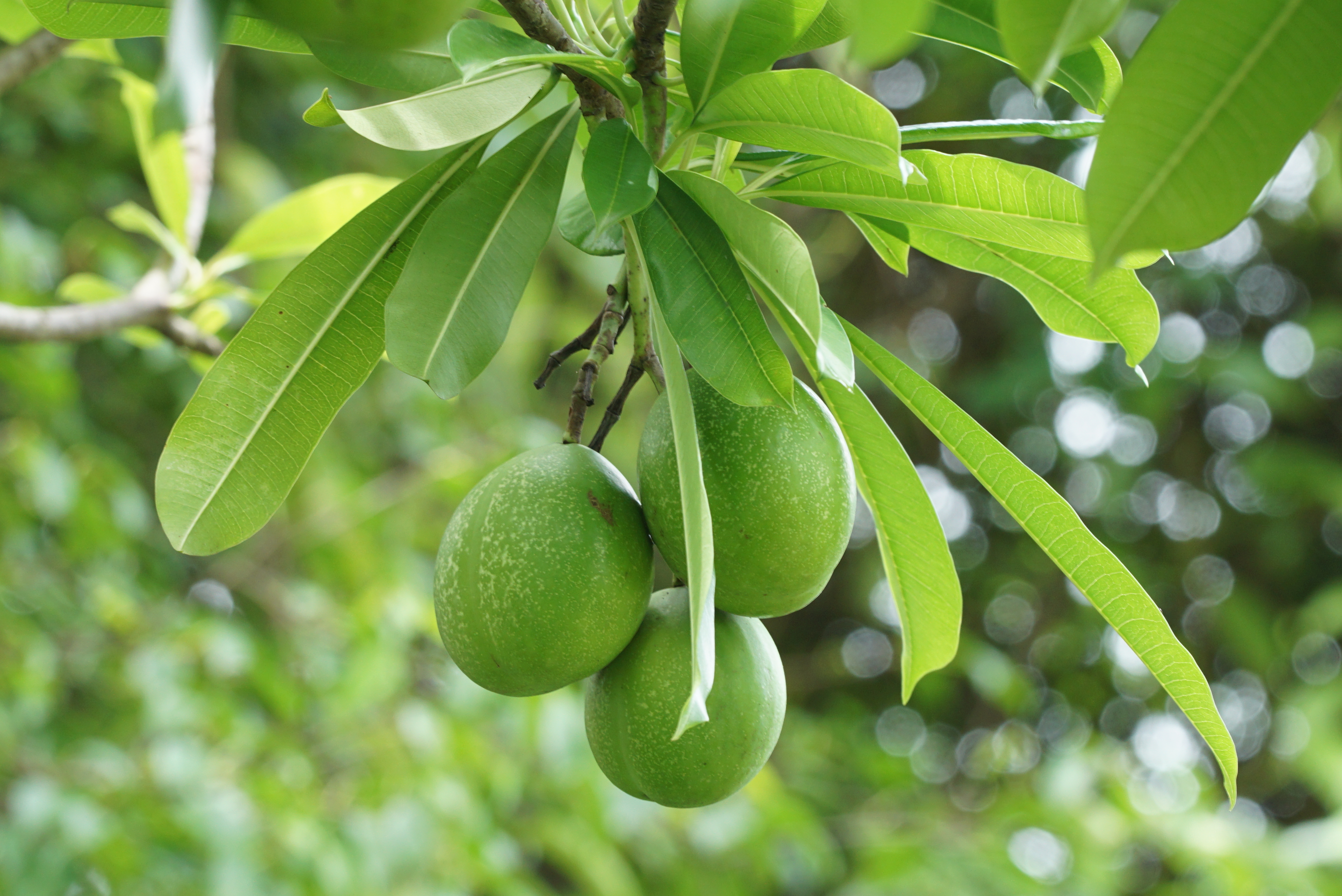 Cerbera odollam,fruit